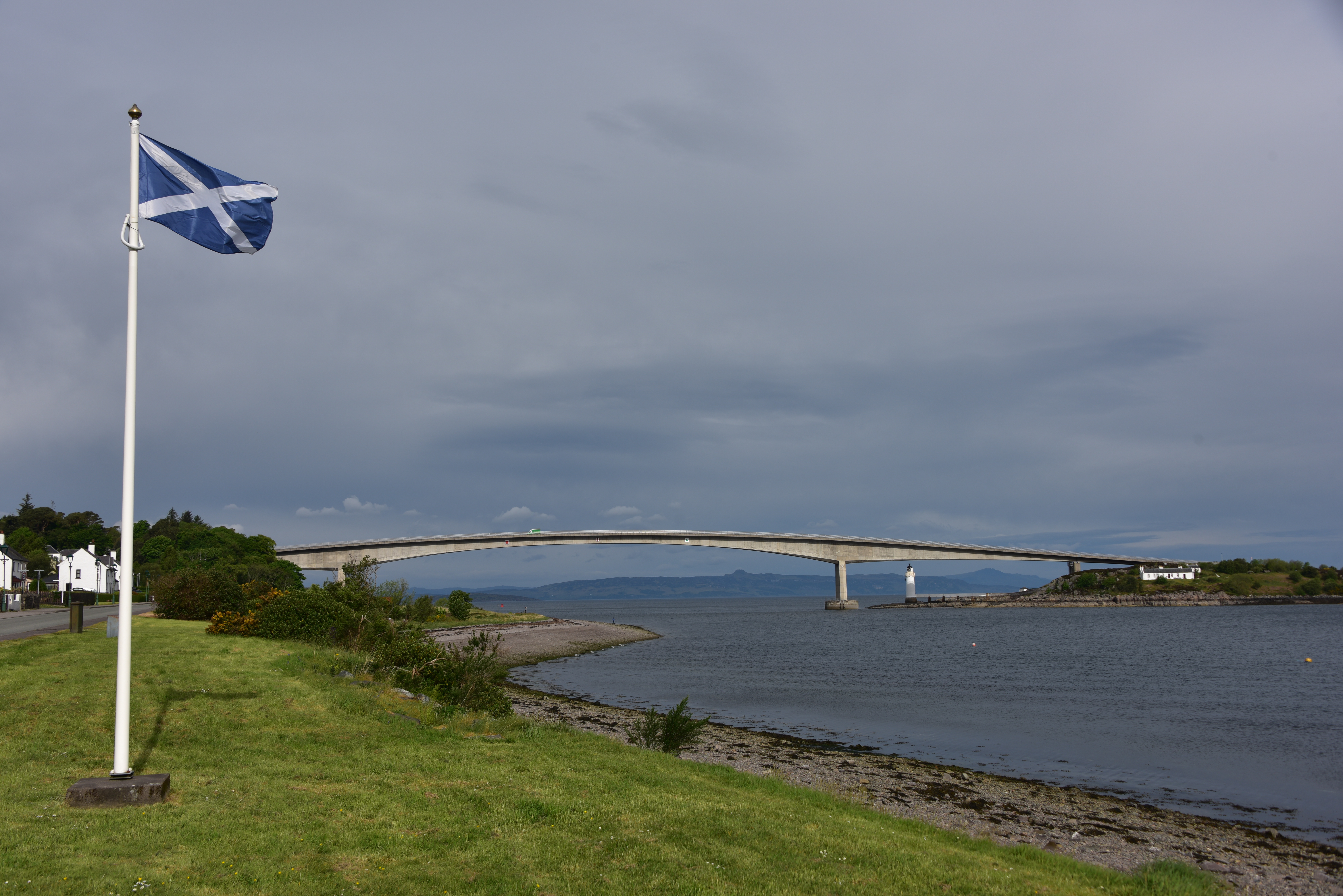 These days, one does not have to take a boat to the Isle of Skye dressed as a serving-maid; one can simply drive across the bridge.